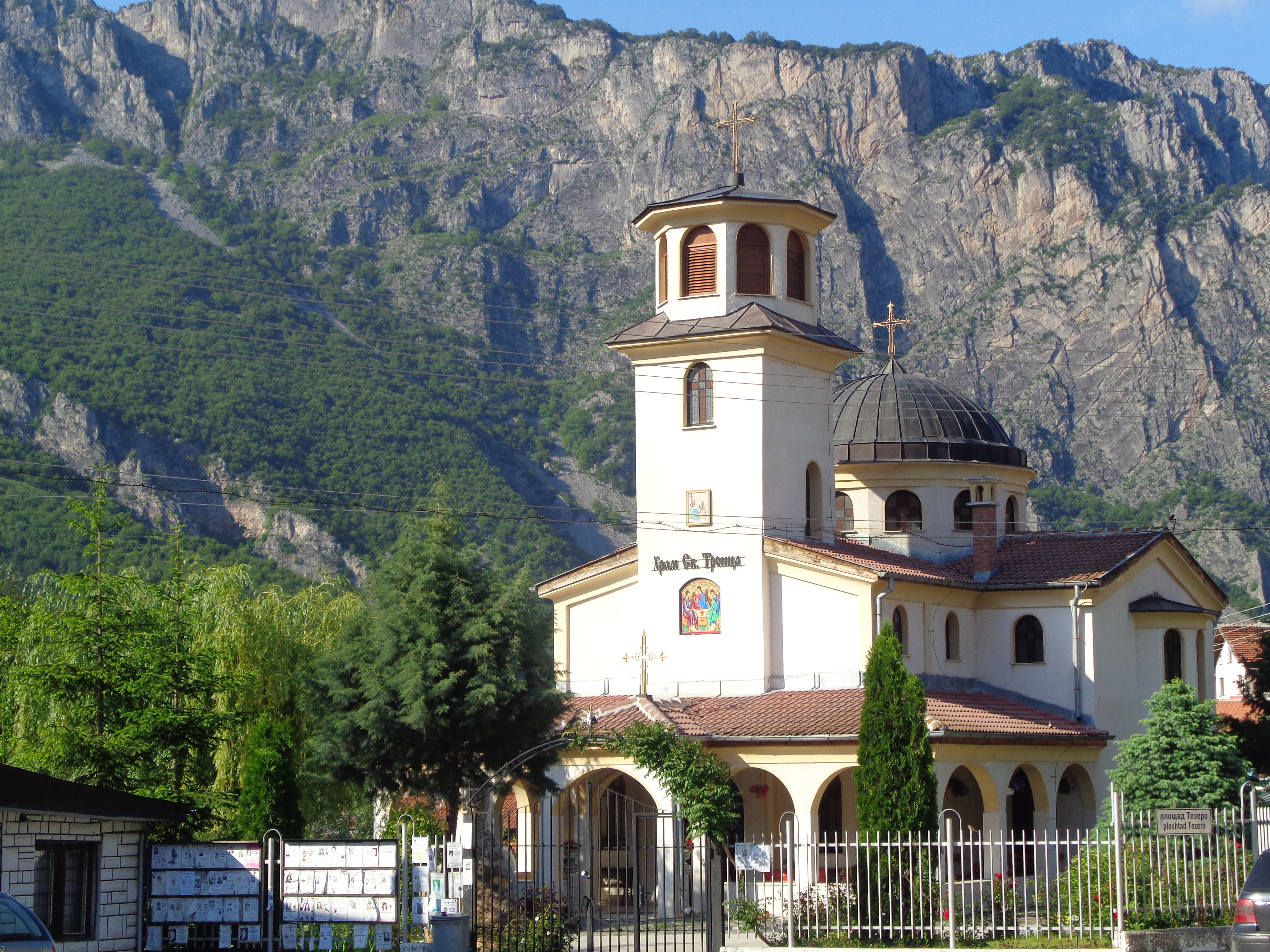 The beautiful chirch in the centre of Zgorigrad village.